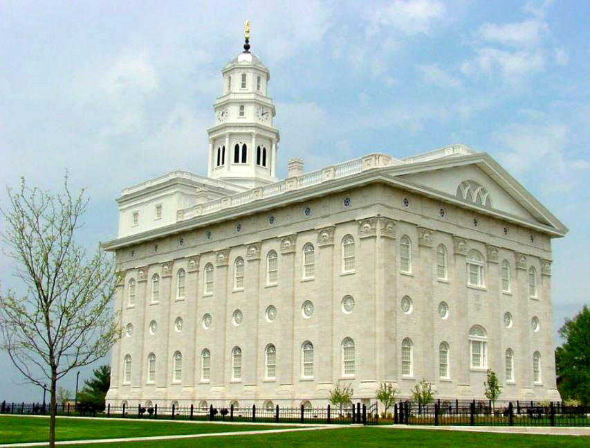 The Nauvoo Illinois Temple of The Church of Jesus Christ of Latter-day Saints, located in Nauvoo, Illinois, USA.